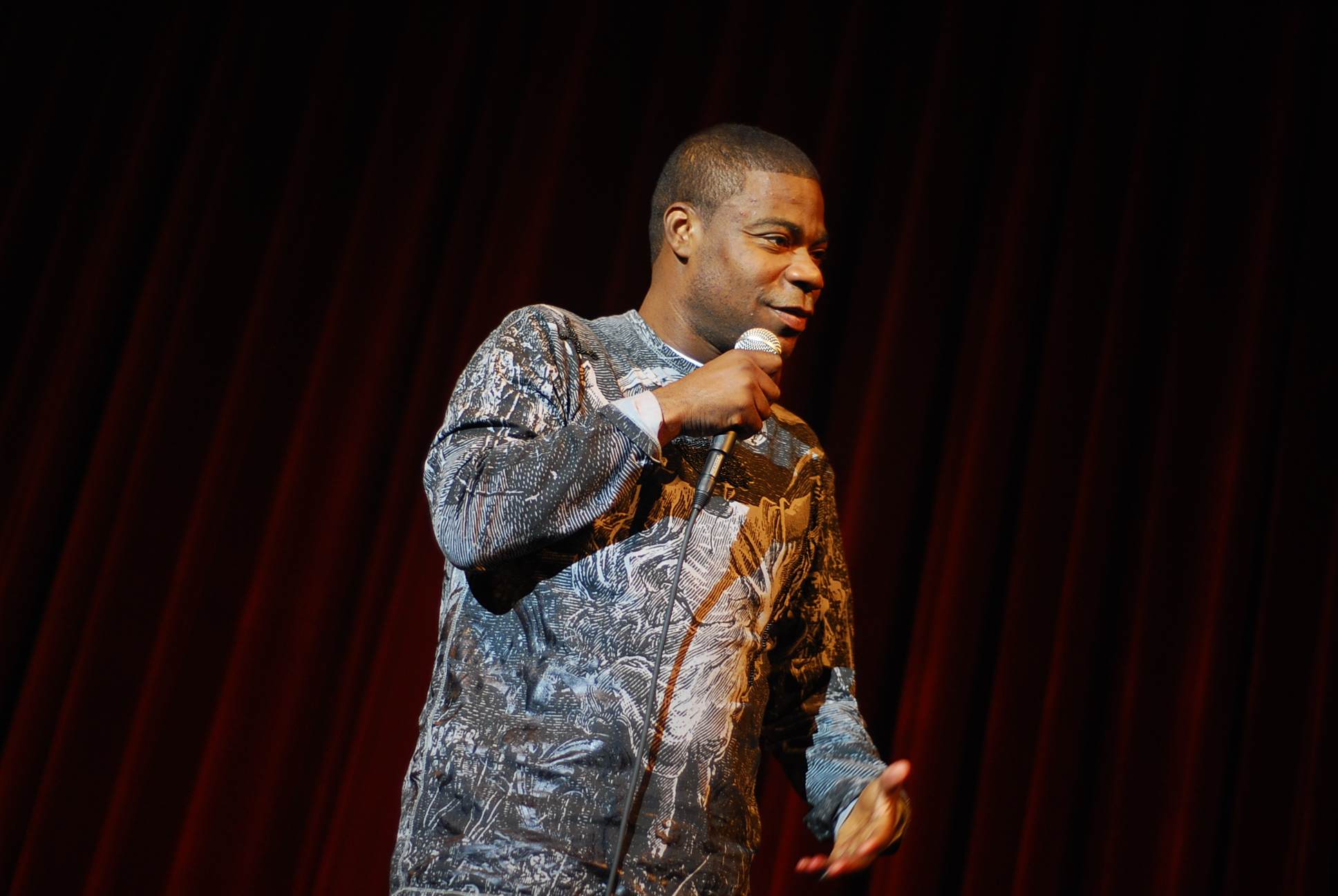 Tracy Morgan performing at Cornell University